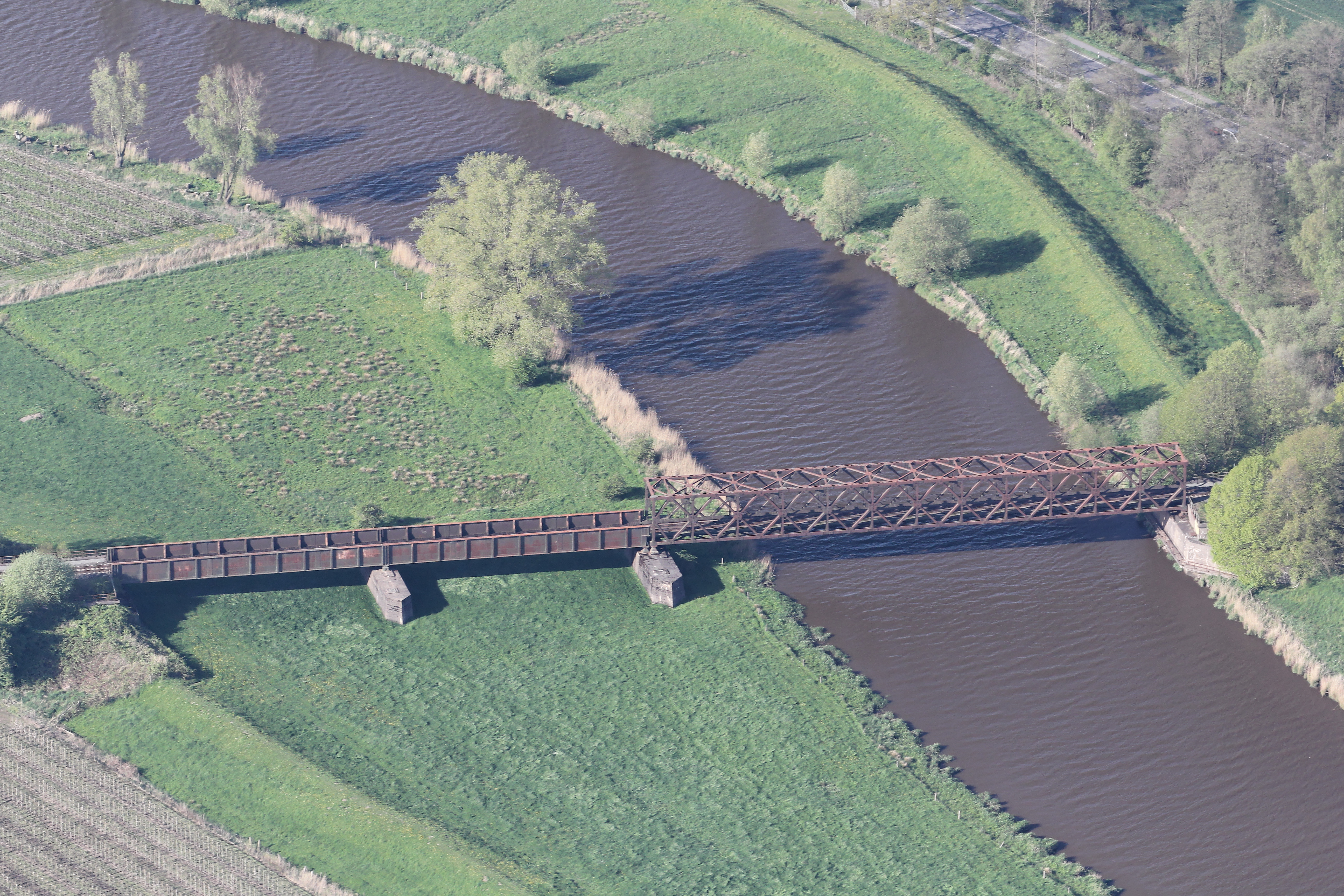 A aerial photograph of a unidentified location.